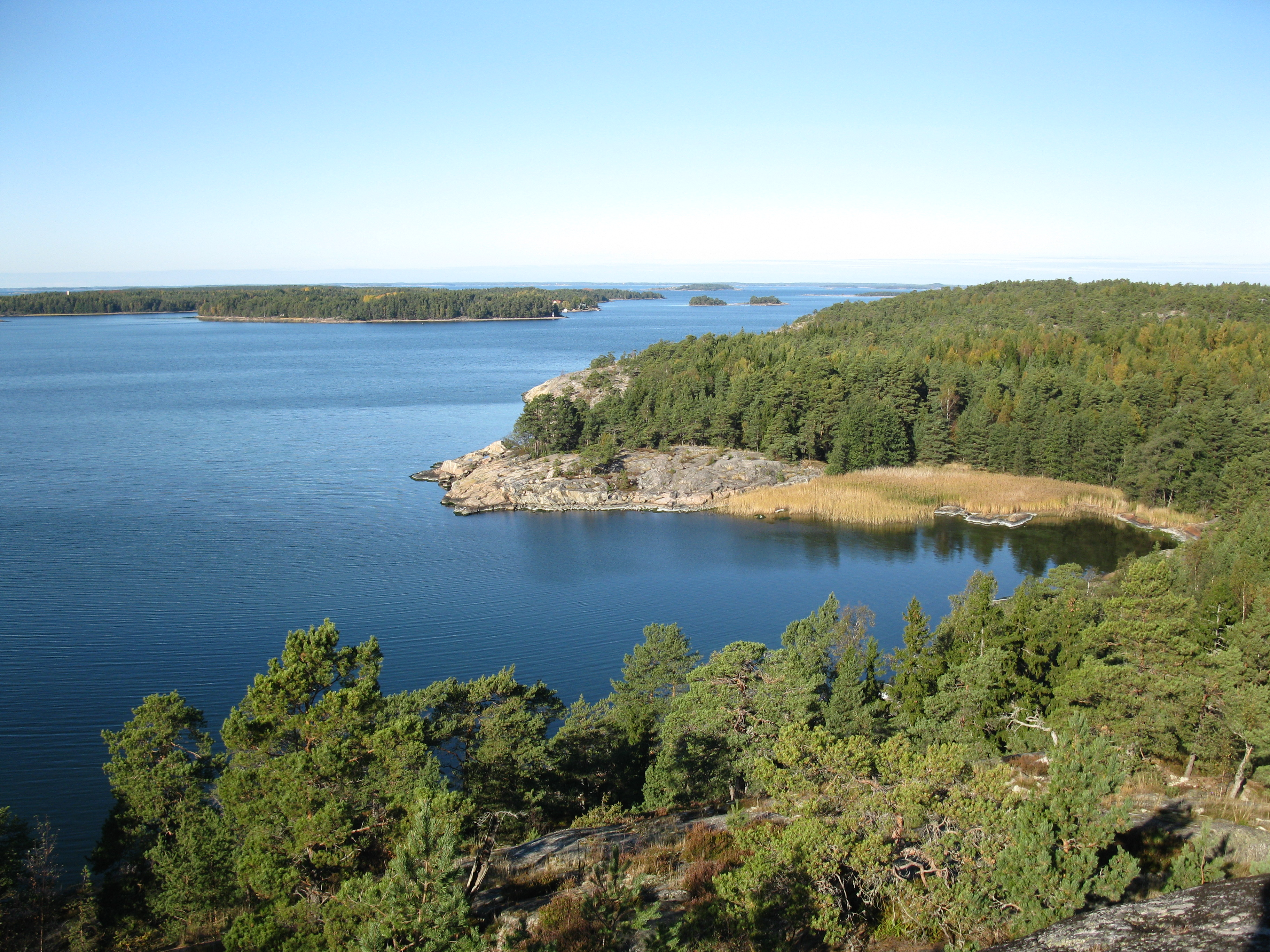 View from Glasberget over Finnviken towards Hamnholmen in Purunpää, Dragsfjärd, Kimitoön, Finland